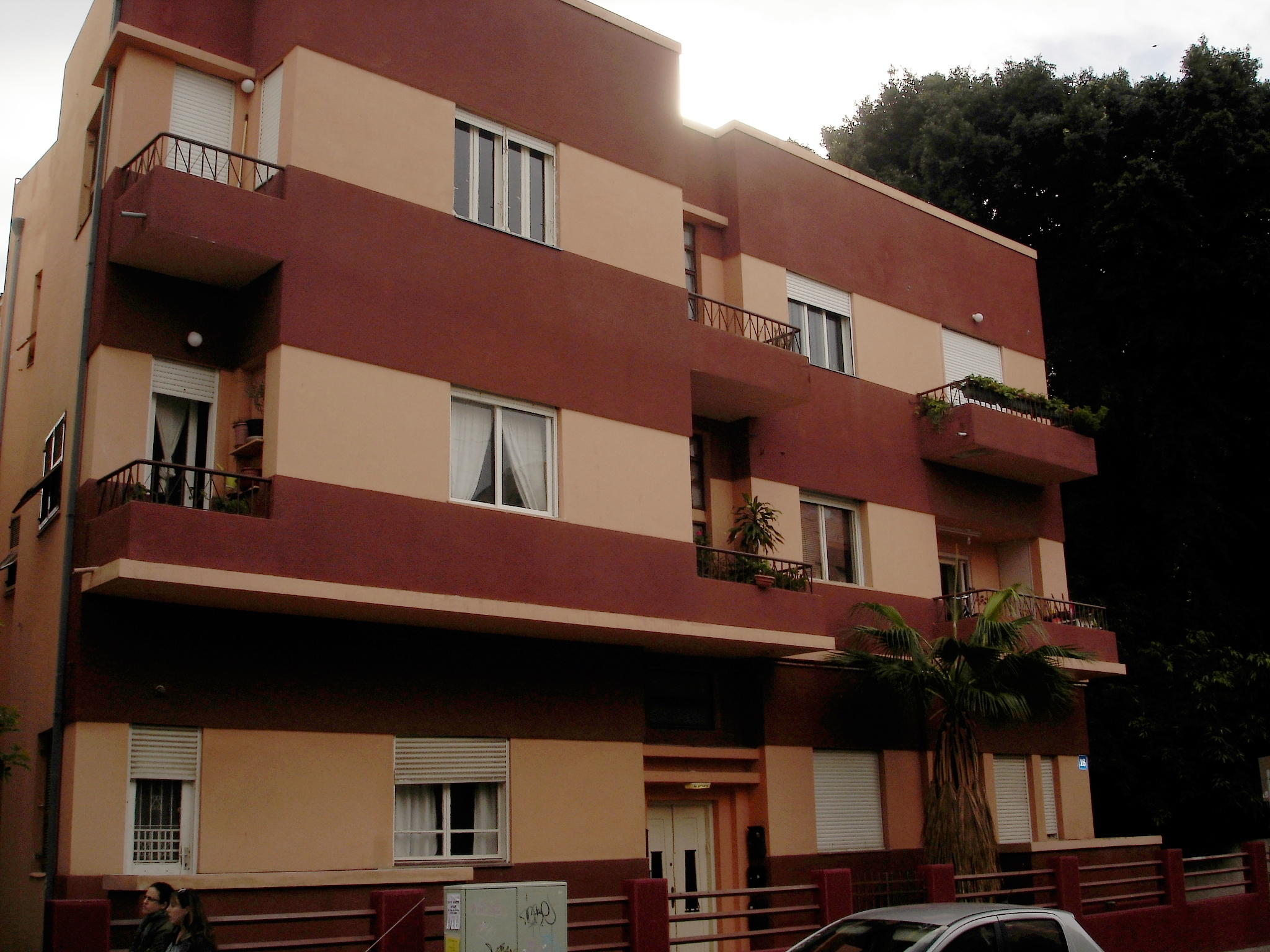 Palskovski House, 16 Bialik St, Tel Aviv, built in 1932 by architect Megedovic (or Magidovitch)